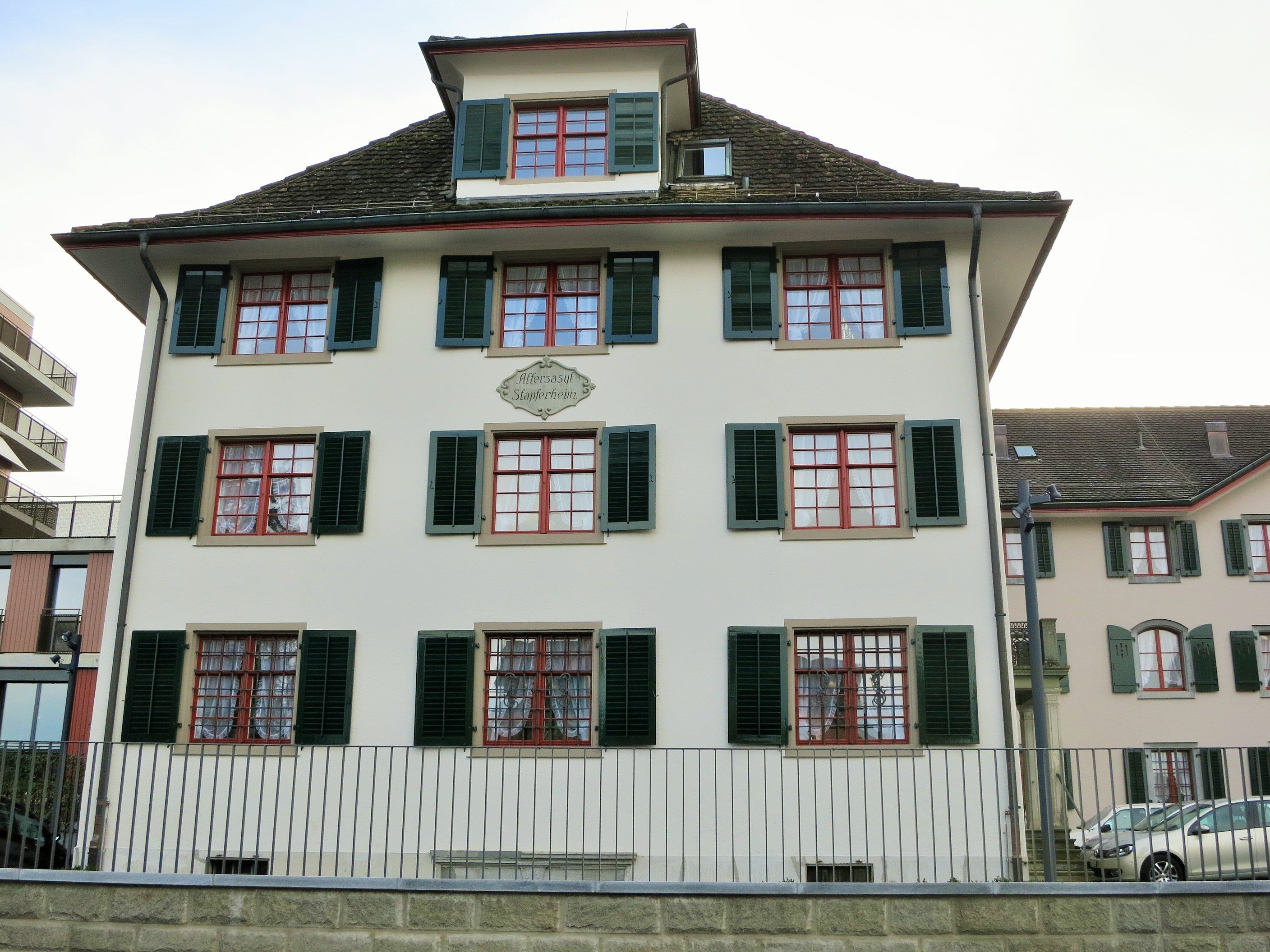 Altersheim Stapferheim, Horgen ZH, Schweiz